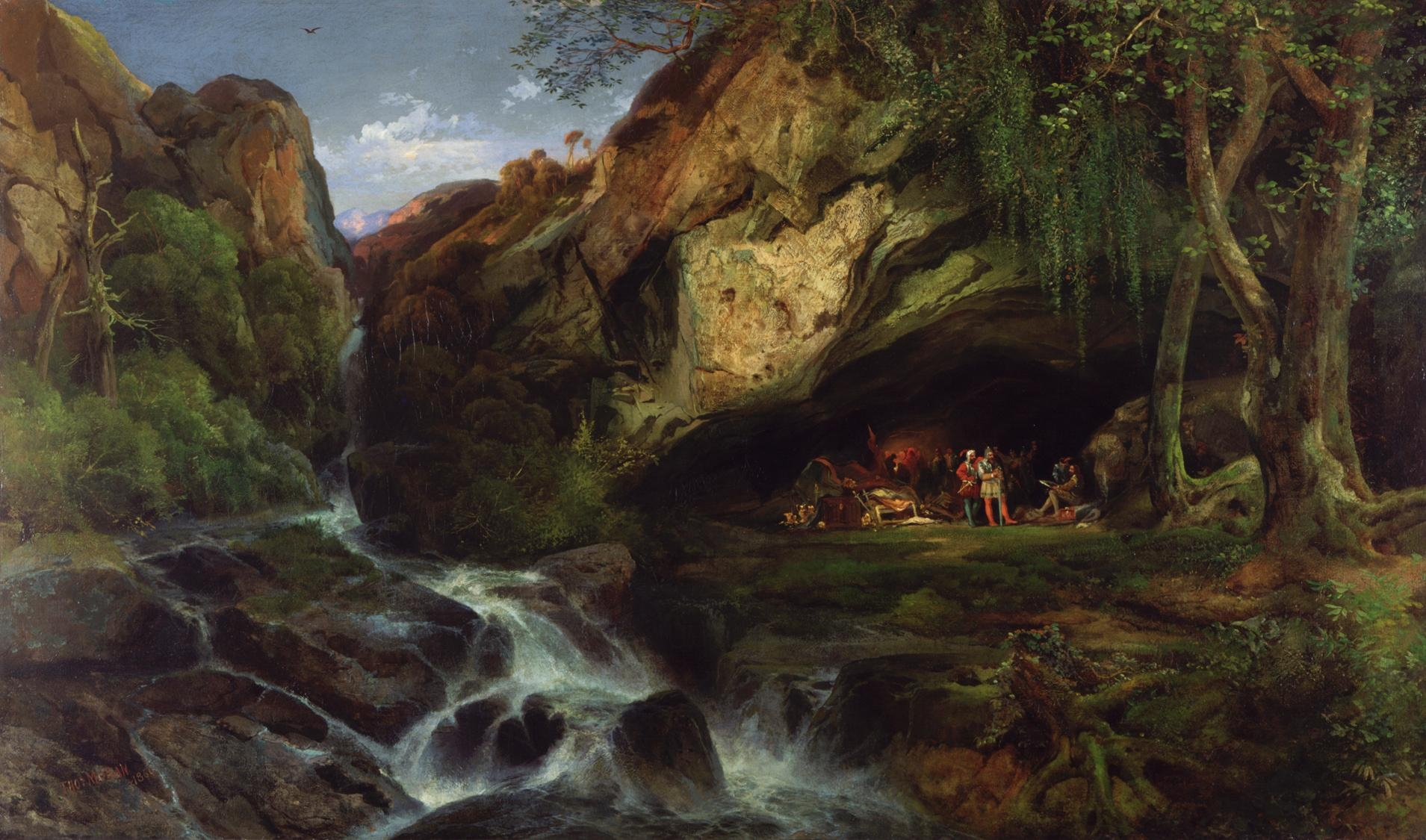 Oil on canvas painting of Salvator Rosa, an Italian artist, sketching the banditti. The group of figures are set into a landscape with a water course; they are to the right of the stream, which runs through the rocky landscape.